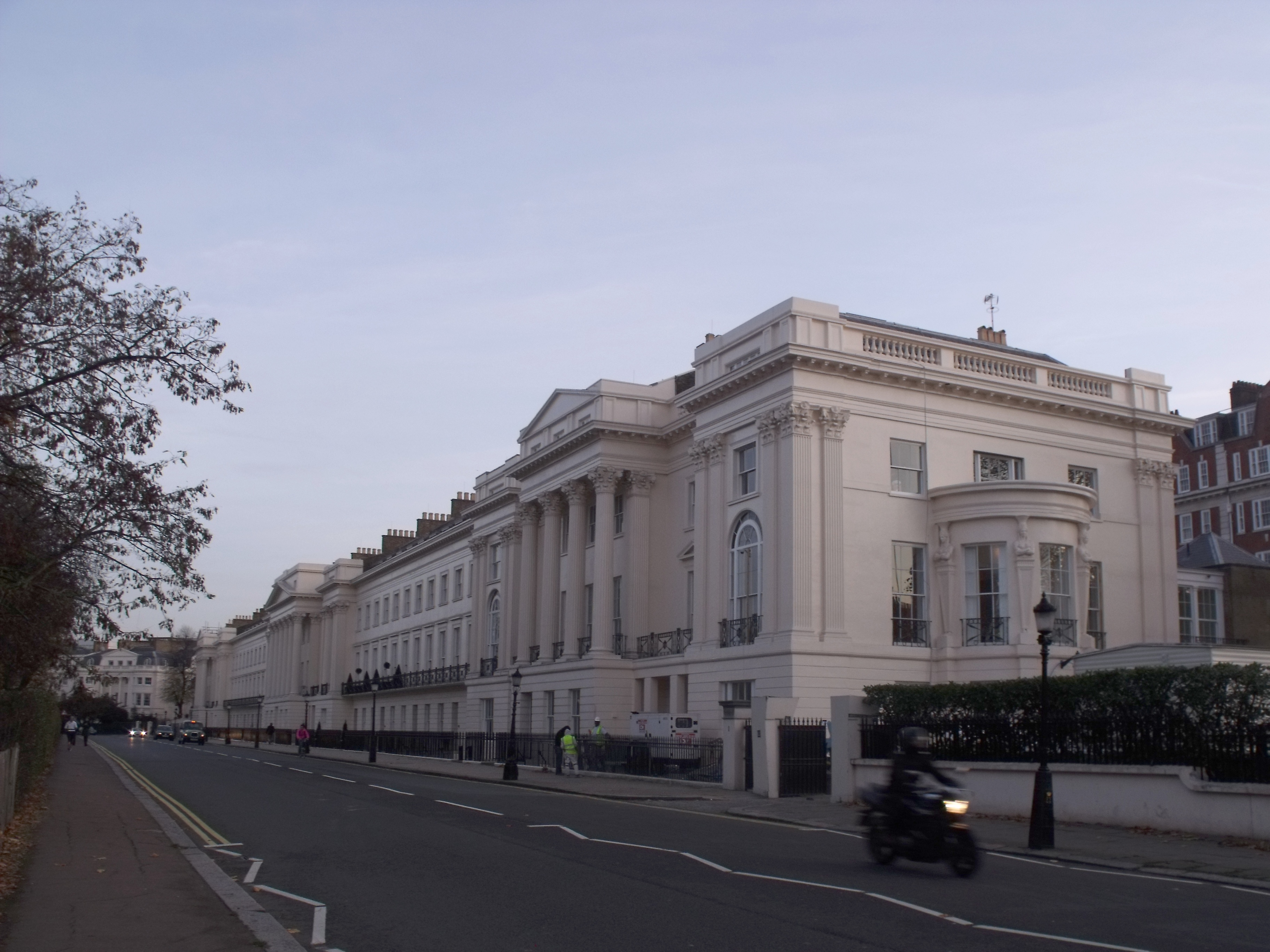 1-21 Cornwall Terrace, London, Grade I listed.